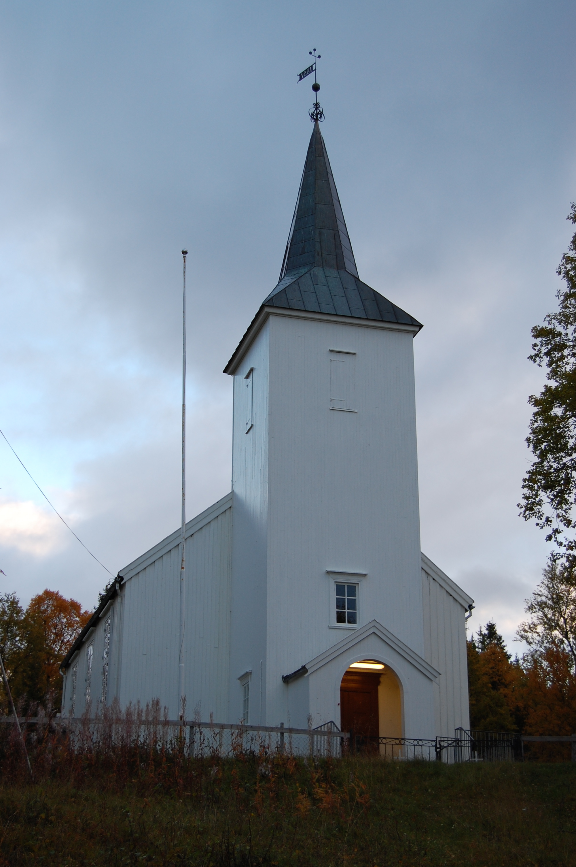 Malangen Church from 1853 in Balsfjord, Troms, Norway. Wooden church, Diocese of Nord-Hålogaland.